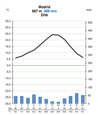 Madrid kliimadiagramm